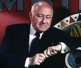 Screenshot of Cecil B. DeMille from the trailer for the film The Greatest Show on Earth.